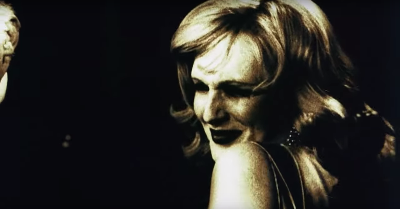 Still from Silent Night, Bloody Night